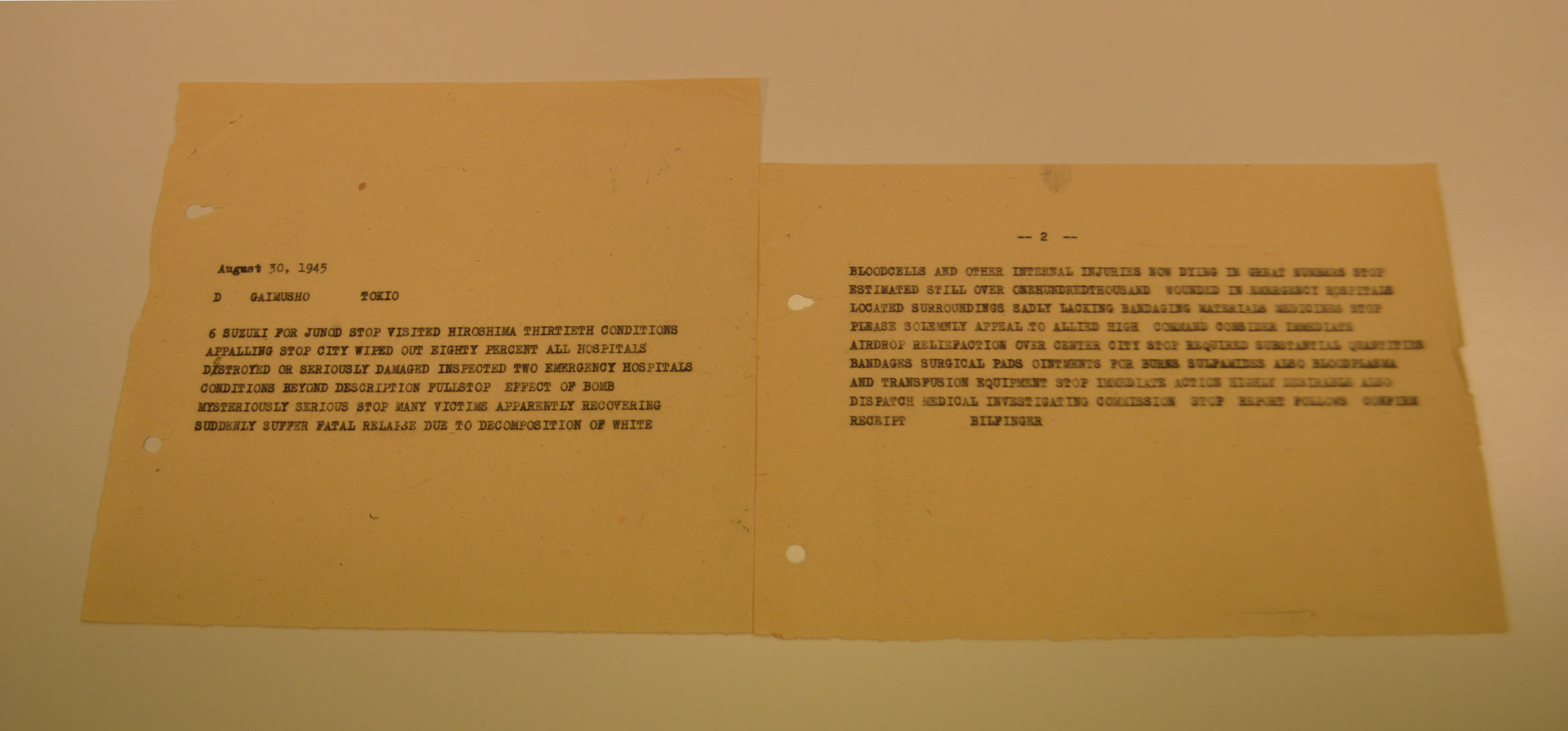 A telegram sent by Fritz Bilfinger, delegate of the International Committee of the Red Cross (ICRC), on 30 August 1945 from Hiroshima to Marcel Junod at the ICRC office in Tokyo. It has been preserved at the ICRC archives in Gnevea and reads: "Visited Hiroshima thirtieth, conditions appalling stop city wiped out, eighty percent all hospitals destroyed or seriously damaged; inspected two emergency hospitals, conditions beyond description full stop effect of bomb mysteriously serious stop many victims, apparently recovering, suddenly suffer fatal relapse due to decomposition of white blood cells and other internal injuries, now dying in great numbers stop estimated still over one hundred thousand wounded in emergency hospitals located surroundings, sadly lacking bandaging materials, medicines stop."